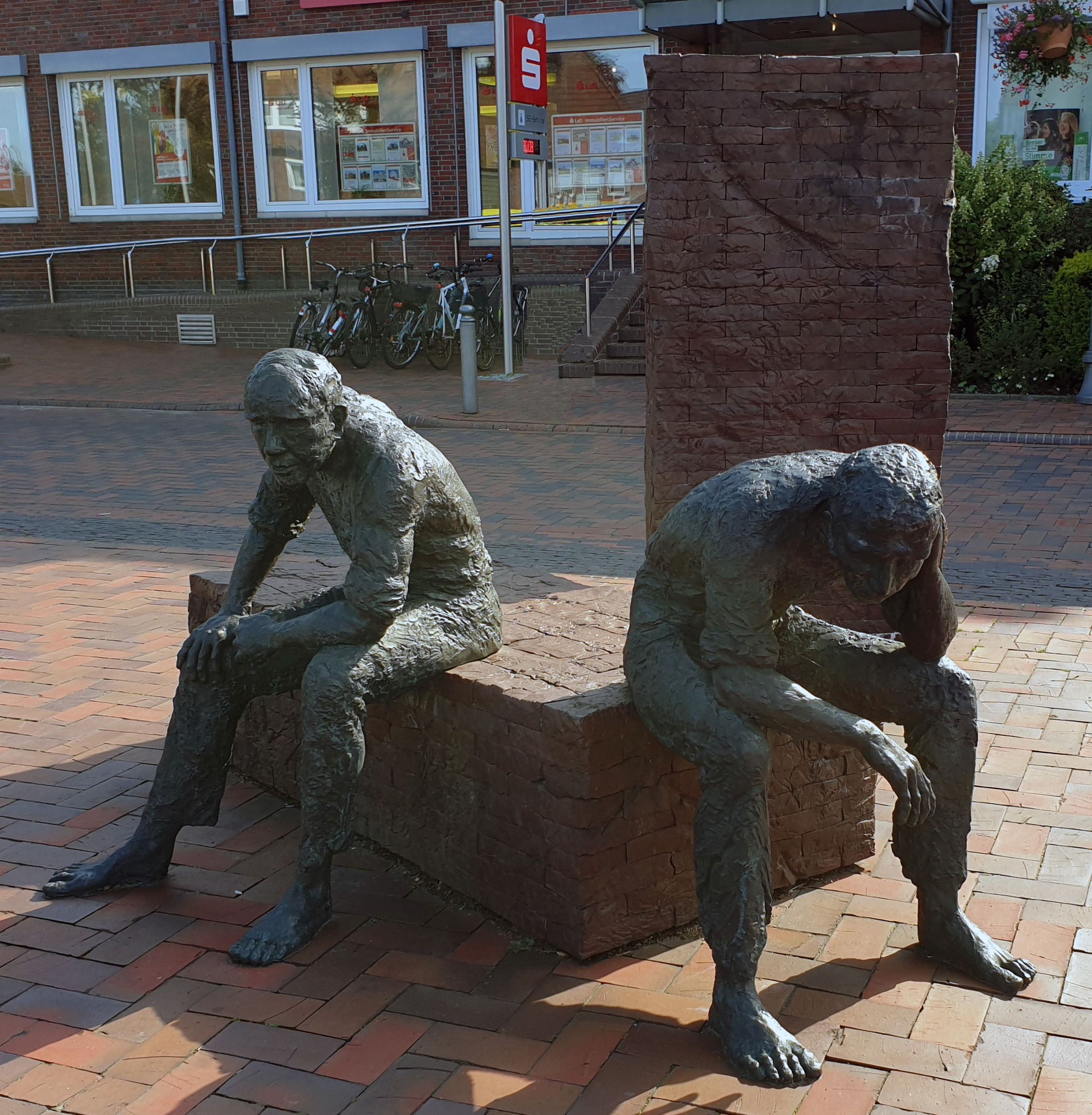 Sculpture, "'Ziegeleiarbeiter" by Heinz Jürgen Gerdes, 1996, Am Markt, Bockhorn, Germany